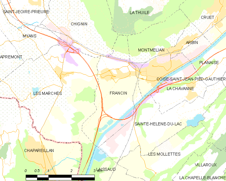 Map of French municipality